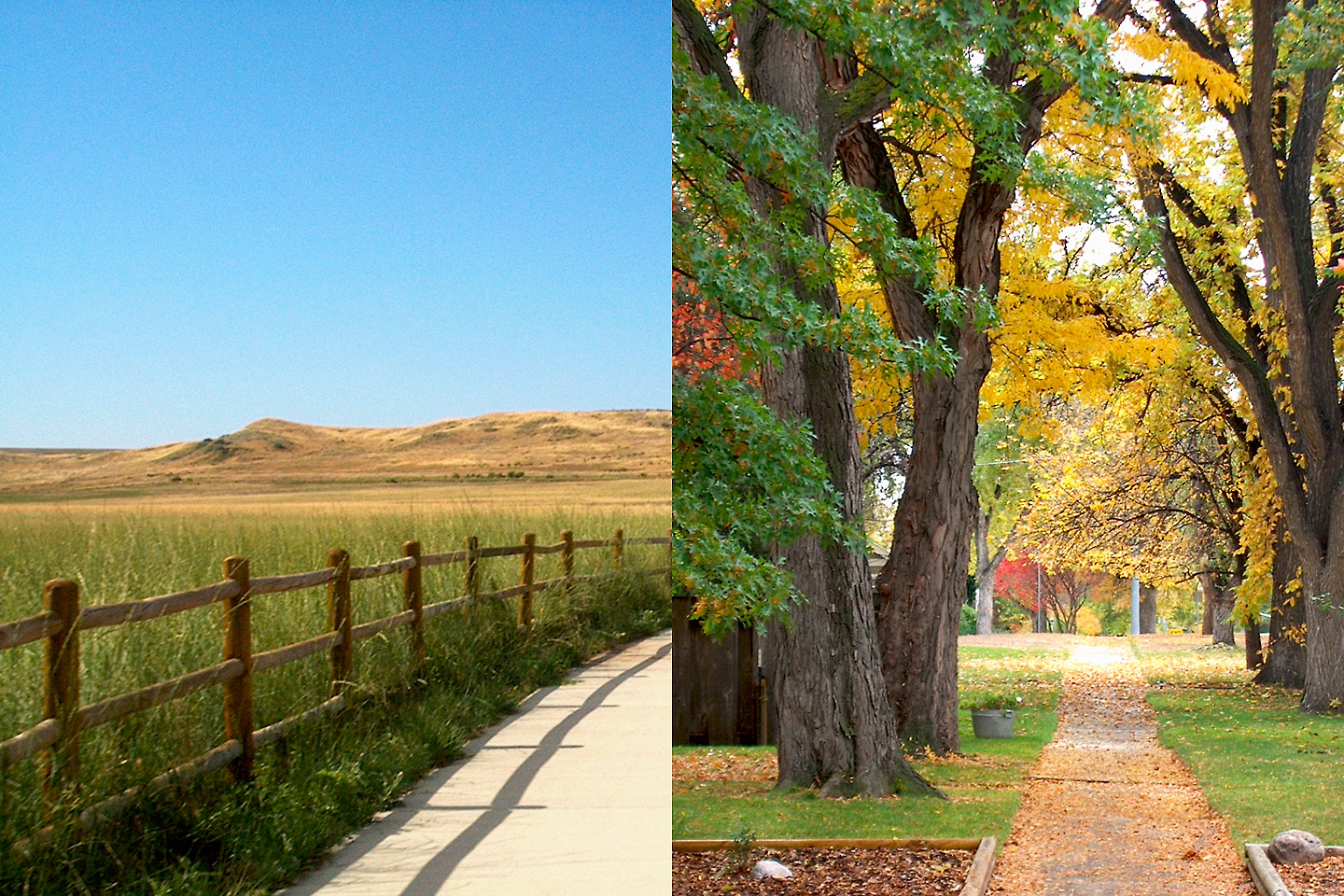 A depiction of the natural dry terrain and sparse vegetation in northern Colorado (left), compared with the lush, tree-lined streets within Greeley city limits (right).